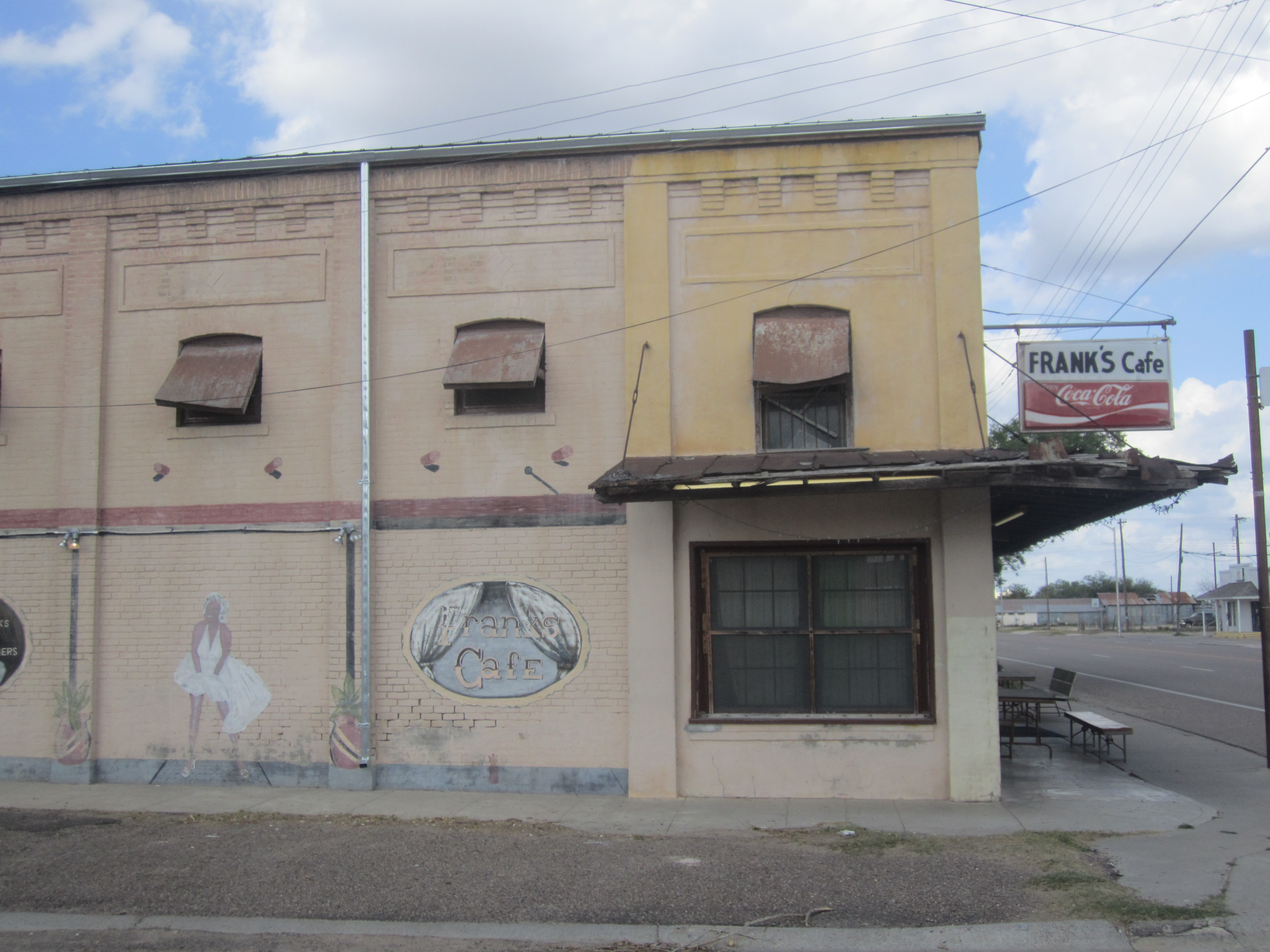 I took photo of Frank's Cafe in Hebbronville, TX, with Canon camera.